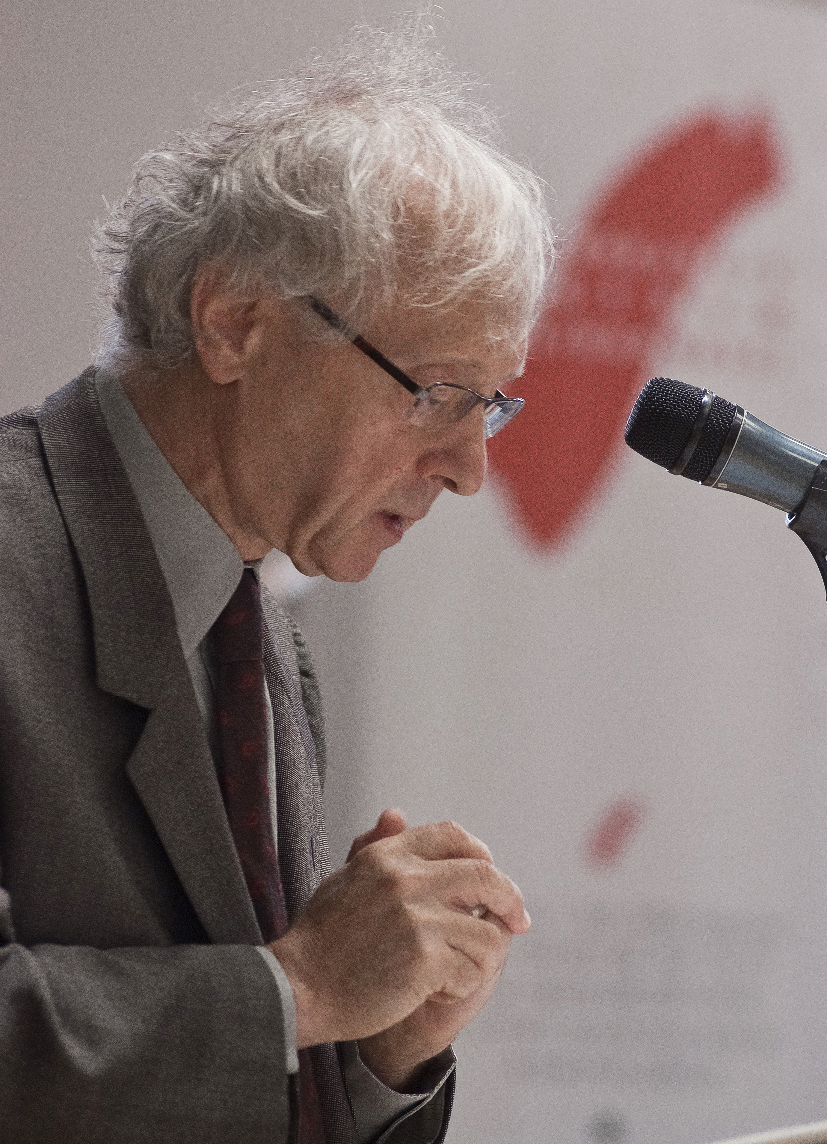 Pierre Manent during the conference "Solidarity and the Crisis of Trust" organized by European Solidarity Centre, Warsaw, 2010.10.11